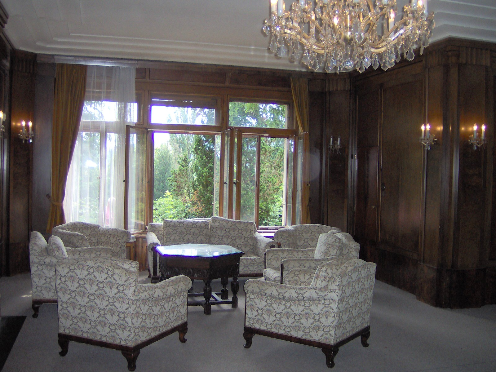 Villa Stiassny, Brno, Czech Republic